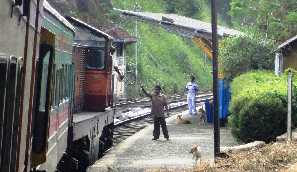 Train Tablet Exchange Sri Lanka Railway CGR